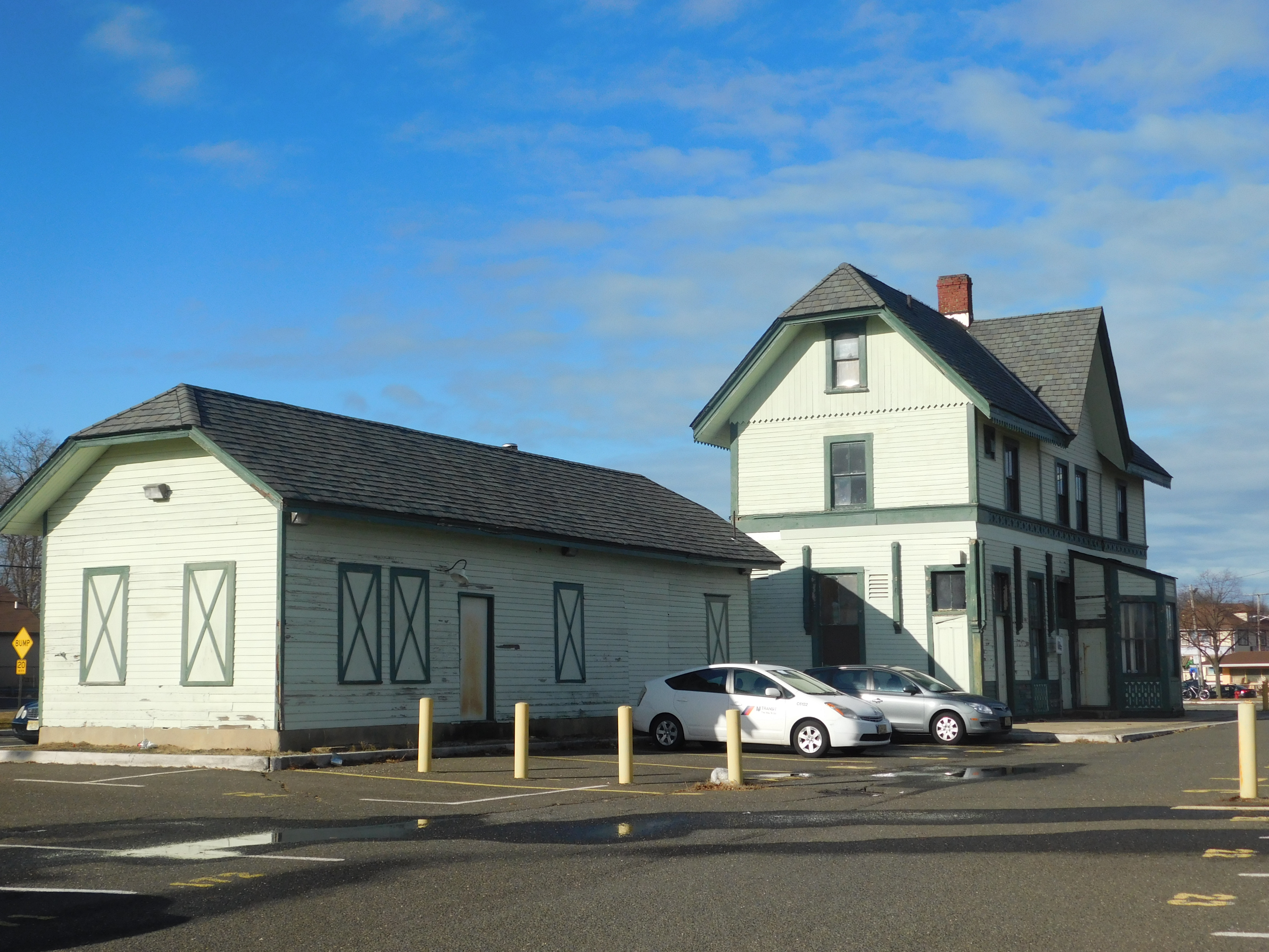 The former Jersey Central Railroad depot at Matawan station.